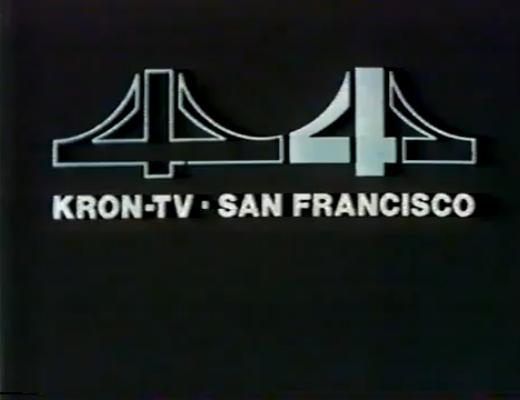 In 1974, KRON-TV introduced the original version of its current "4" logo, based on the design of the Golden Gate Bridge (the vertical component is a bridge tower, the horizontal component is a portion of the bridge deck, and the curve is a portion of a suspension cable). Station identifications used by the station during the 1970s and 1980s usually depicted the logo hidden in positive space within a full-scale design of the bridge.